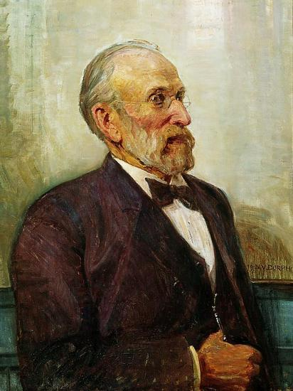 Gustav Adolph Hagemann, Danish ingeneer